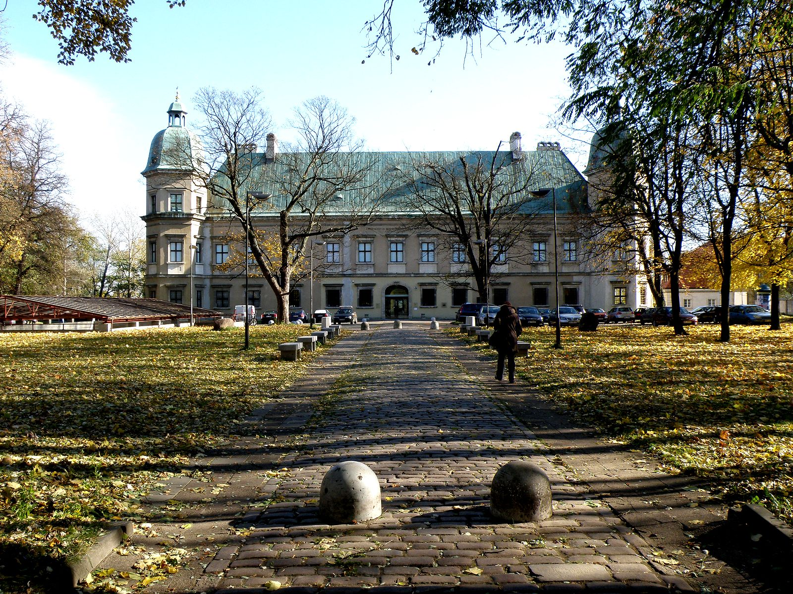 Zamek Ujazdowski w Warszawie, front view, undeground historic water tank on the left side